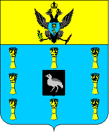 Coat of Arms Bobrynets Kherson gov. Russian Empire(now Kirovograd Oblast Ukraine)